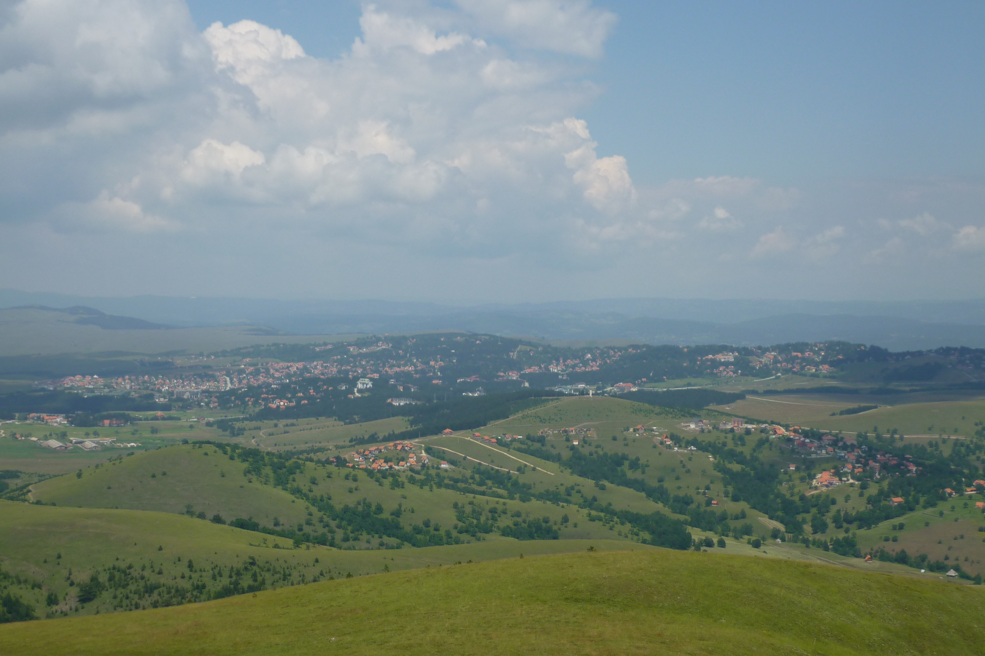 Zlatibor. View from the Cigota mountain.